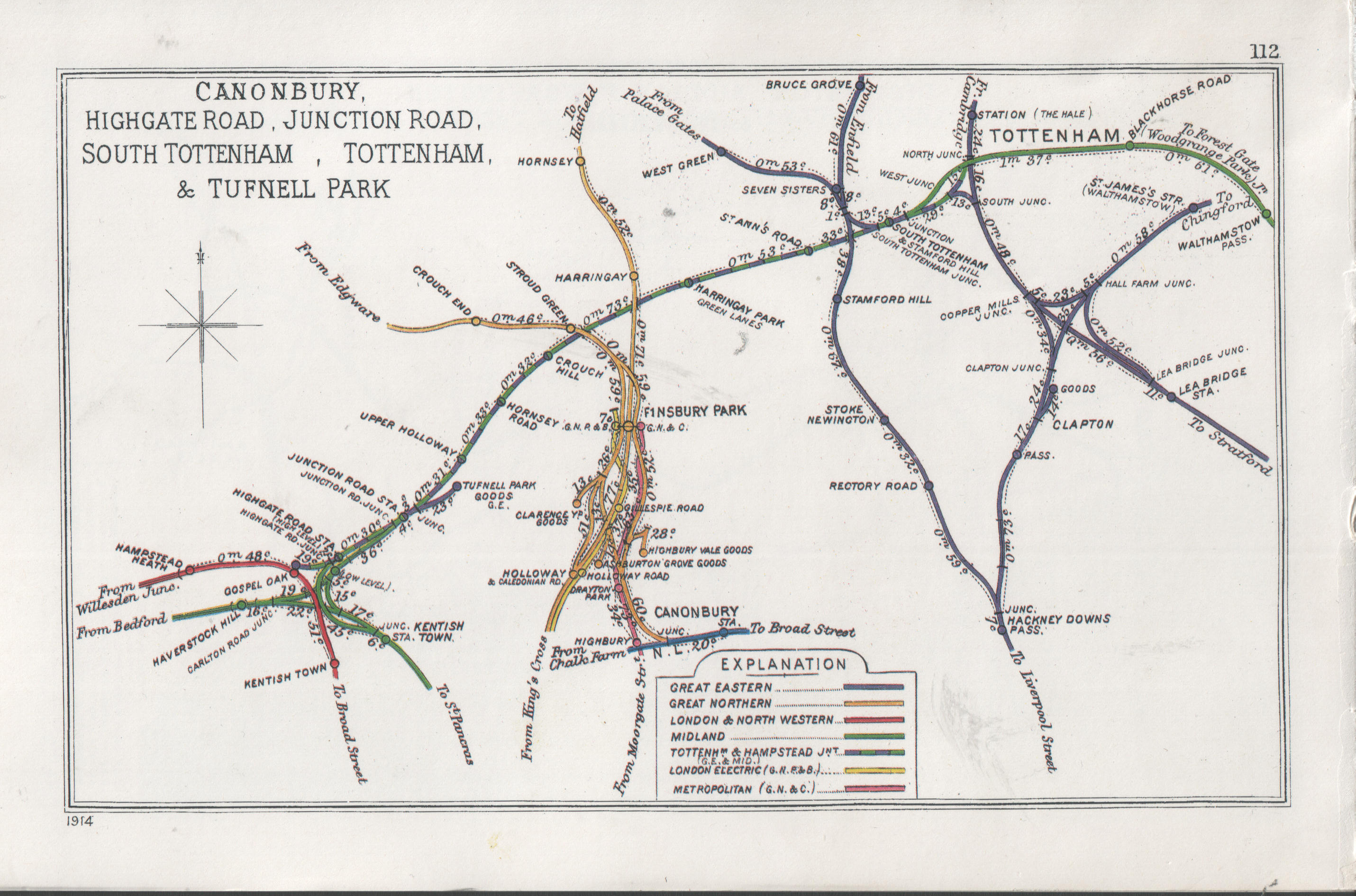 Pre Grouping railway junction around Canonbury, Highgate Road, Junction Road, South Tottenham, Tottenham & Tufnell Park